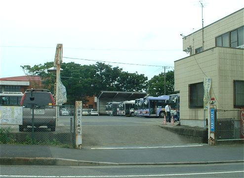 Koganehara information office of Matsudo shin-keisei bus